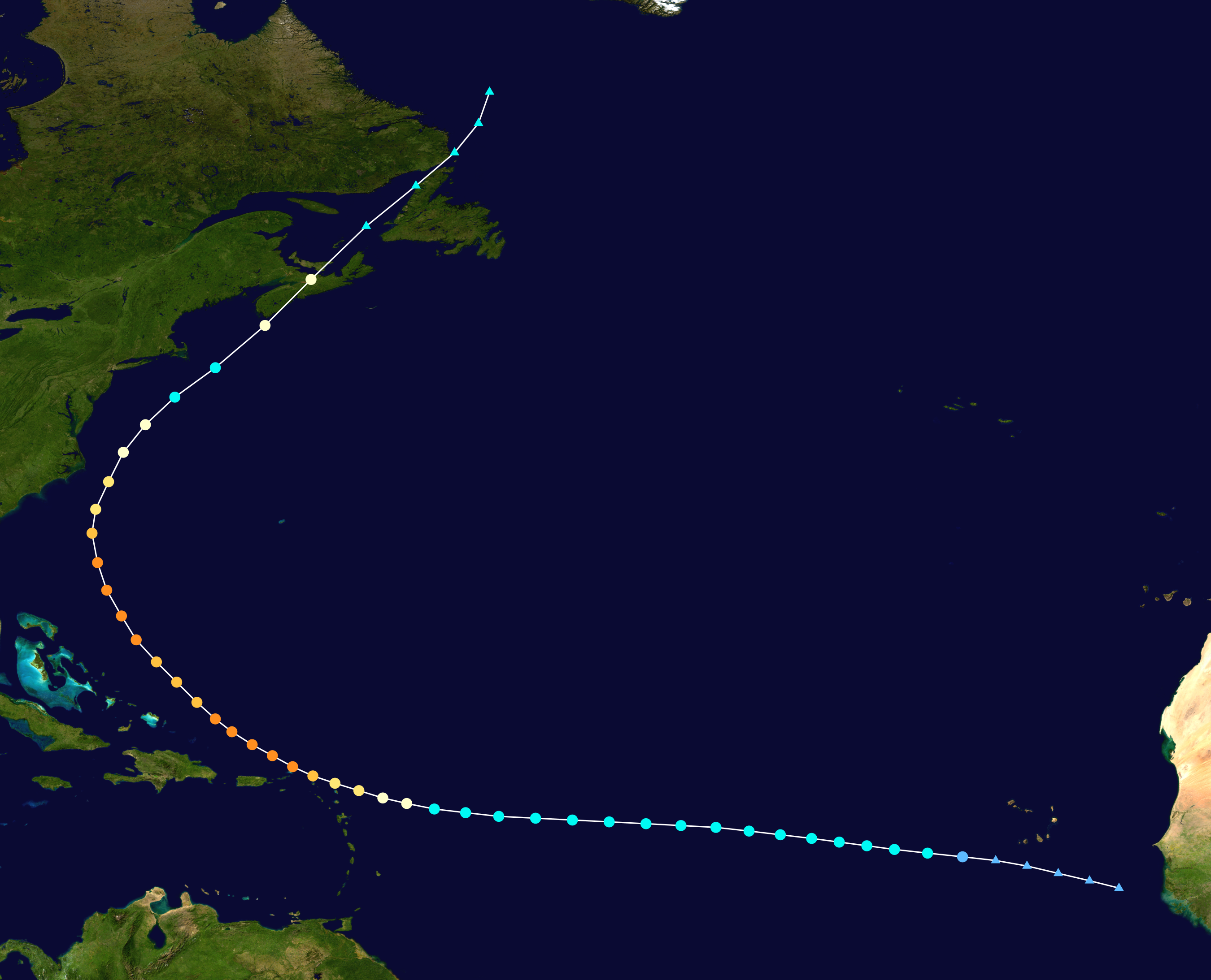 Track map of Hurricane Earl of the 2010 Atlantic hurricane season. The points show the location of the storm at 6-hour intervals. The colour represents the storm's maximum sustained wind speeds as classified in the Saffir–Simpson scale (see below), and the shape of the data points represent the nature of the storm, according to the legend below. Saffir–Simpson scale Tropical depression≤38 mph≤62 km/h Category 3111–129 mph178–208 km/h Tropical storm39–73 mph63–118 km/h Category 4130–156 mph209–251 km/h Category 174–95 mph119–153 km/h Category 5≥157 mph≥252 km/h Category 296–110 mph154–177 km/h Unknown Storm type Tropical cyclone Subtropical cyclone Extratropical cyclone / Remnant low / Tropical disturbance / Monsoon depression